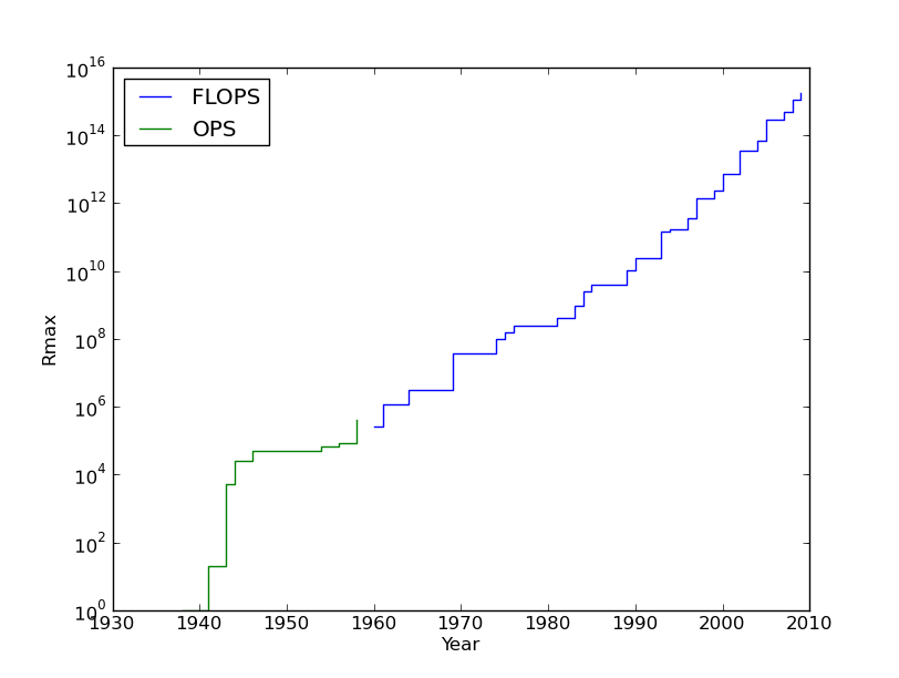 Plot of the fastest computer over time... The two curves represent the two measures (OPS and FLOPS) which have been used to quantify supercomputer speed, these are approximately the same (but not quite). First and Third columns of data taken from and put into file "sc". Removed UPenn ENIAC entry. Used python 2.6 code as follows (I make no excuses for readability/general quality): #!/usr/bin/python fid = open("sc") lastThing = 1066 lineno=-1 sizedic={"O":1, "k":1e3, "M":1e6, "G":1e9, "T":1e12, "P":1e15} X1 = Y1 = X2 = Y2 = for line in fid: lineno+=1 if lineno==0: continue x = line.split("\t") a = x[0] y = x[1].split("\xc2\xa0") if len(y) != 2: y = x[1].split(" ") b = y[0] c = y[1] try: a = float(a) lastThing = a except: pass b = float(b) d = sizedic[c.strip [0 print lastThing,":",b,"x",d if c.strip .endswith("FLOPS"): X1.append(lastThing) Y1.append(b*d) else: X2.append(lastThing) Y2.append(b*d) import matplotlib.pyplot as plt plt.semilogy(X1,Y1) plt.semilogy(X2,Y2) plt.legend(["FLOPS","OPS"],"upper left") plt.xlabel("Year") plt.ylabel("Rmax")